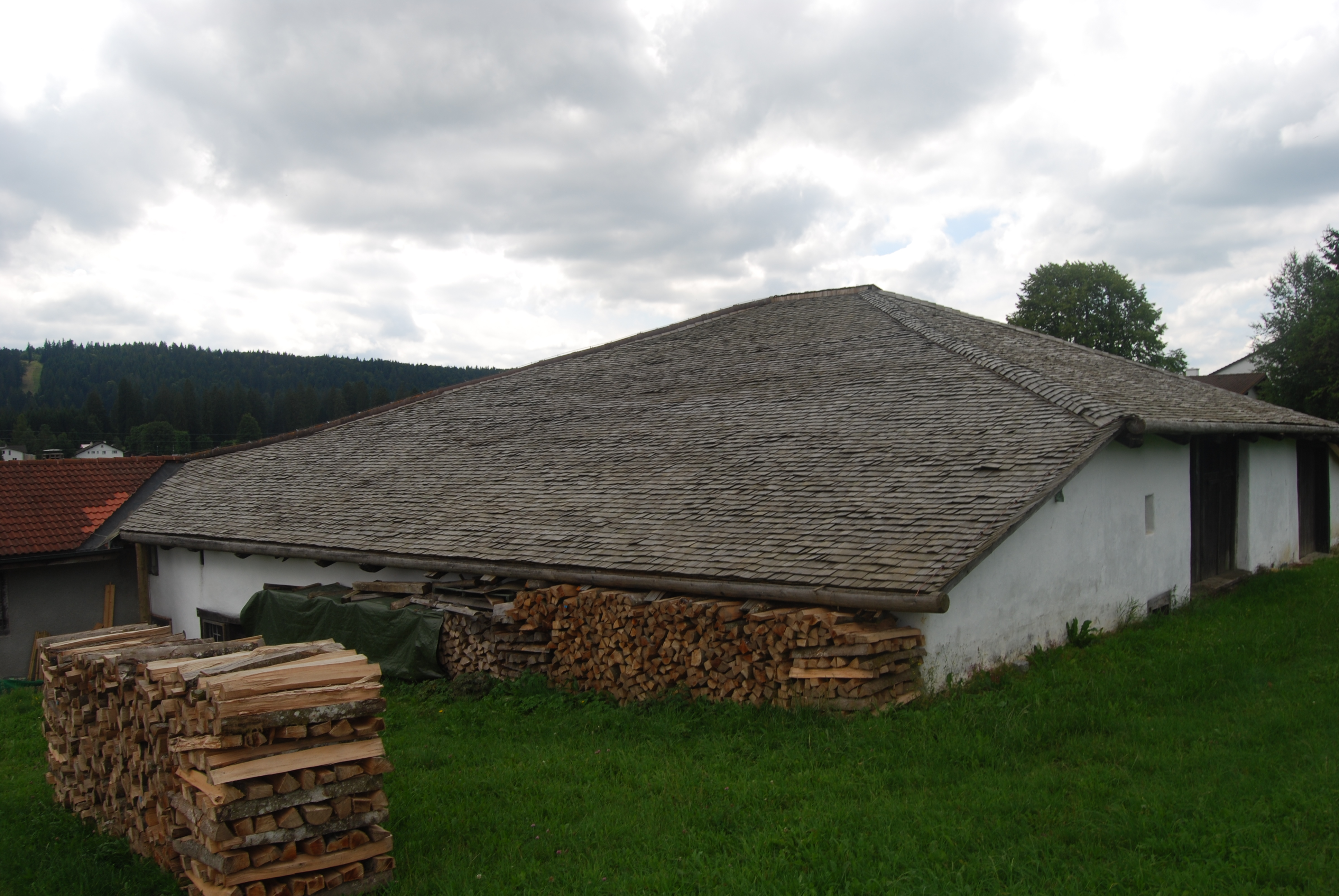 Jurassic Rural Museum at Les Genevez, canton of Jura, Switzerland